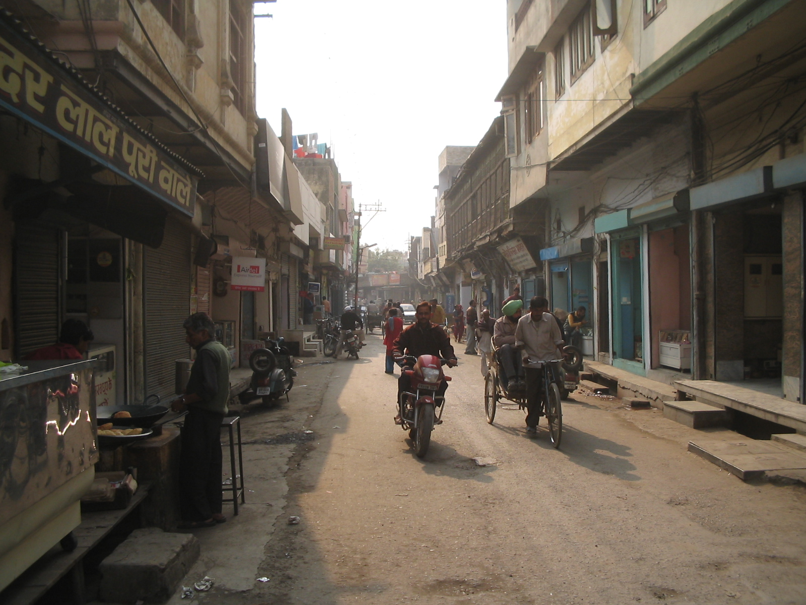 An old colony "Mohalla Raipurian" of Jagadhri. -- I visited this colony, with my family re a combined trip to our supreme religious Goddess Ma Trilok Pur (also called Ma Bala Sundri) as well as father (Ashwani Kumar's) court case hearing at the Yamunanagar courts.